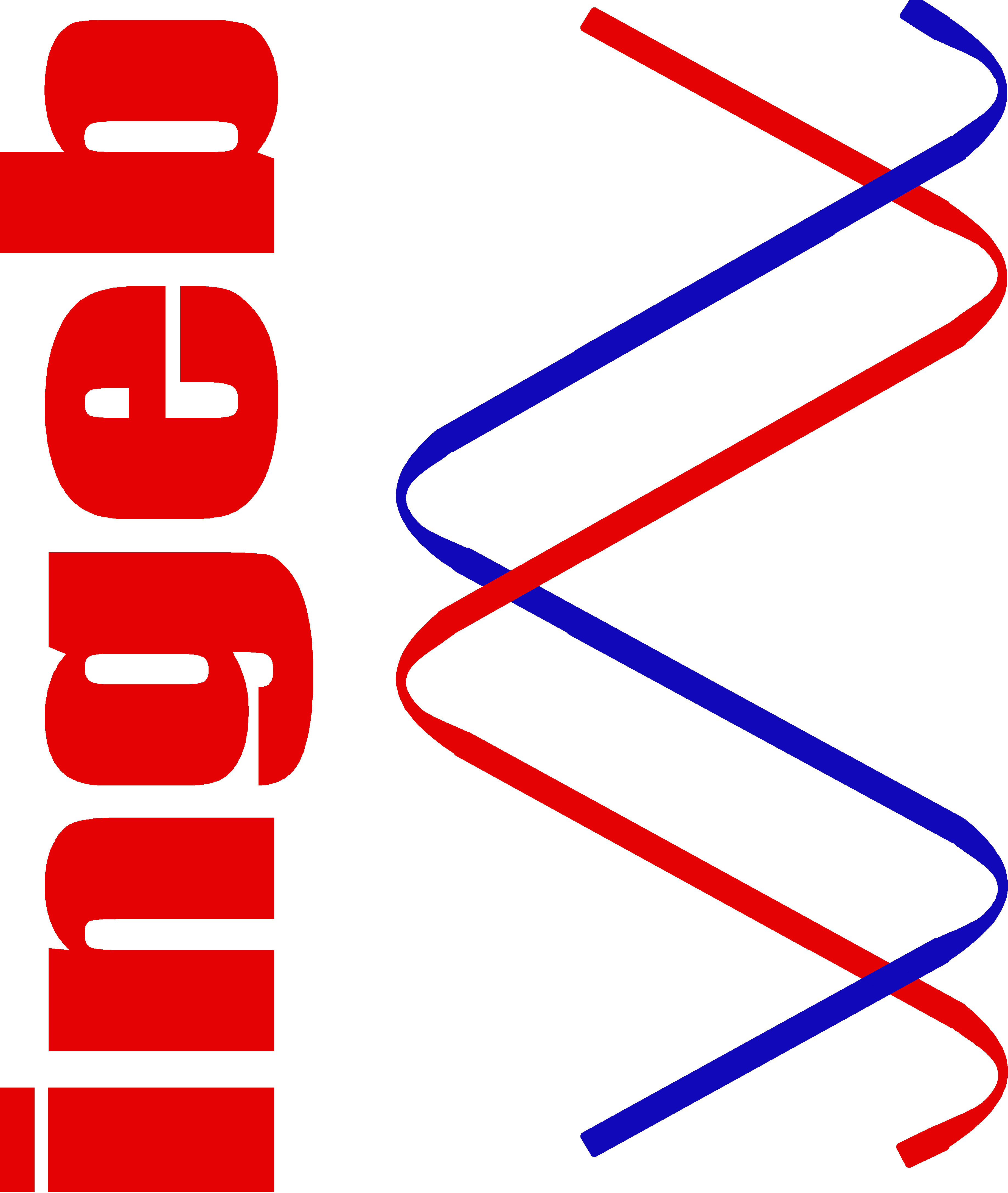 Official Logo of INGEB